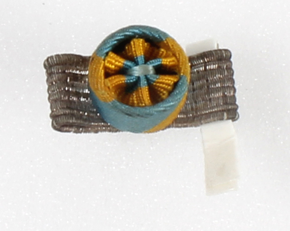 Republic of France- Commander of the Order of Sports Merit Merite Sportif Badge of the Order on a neck ribbon Case of issue Lapel rosette Newspaper clipping- "Le Figaro 17-6-60" "SIR EDMUND HILLARY - recoit les insignes - de commandeur du Merite sportif Sir Edmund Hillary, vainqueur de l’Everest, a recu, hier après-midi de M. Maurice Herzog, vainqueur de l’Annapurna et haut commissaire a la Jeunesse et aux sports, les insignes de commandeur du Merite sportif. Cette decoration, creee il ya deux ans, n’avait ete, jusqu’a present, decernee qu’a de tres grands sportifs francais et a deux etrangers. Apres la ceremonie, Maurice Herzog et Hillary ont longuement parle de la prochaine expedition de ce dernier dans l’Himalaya."